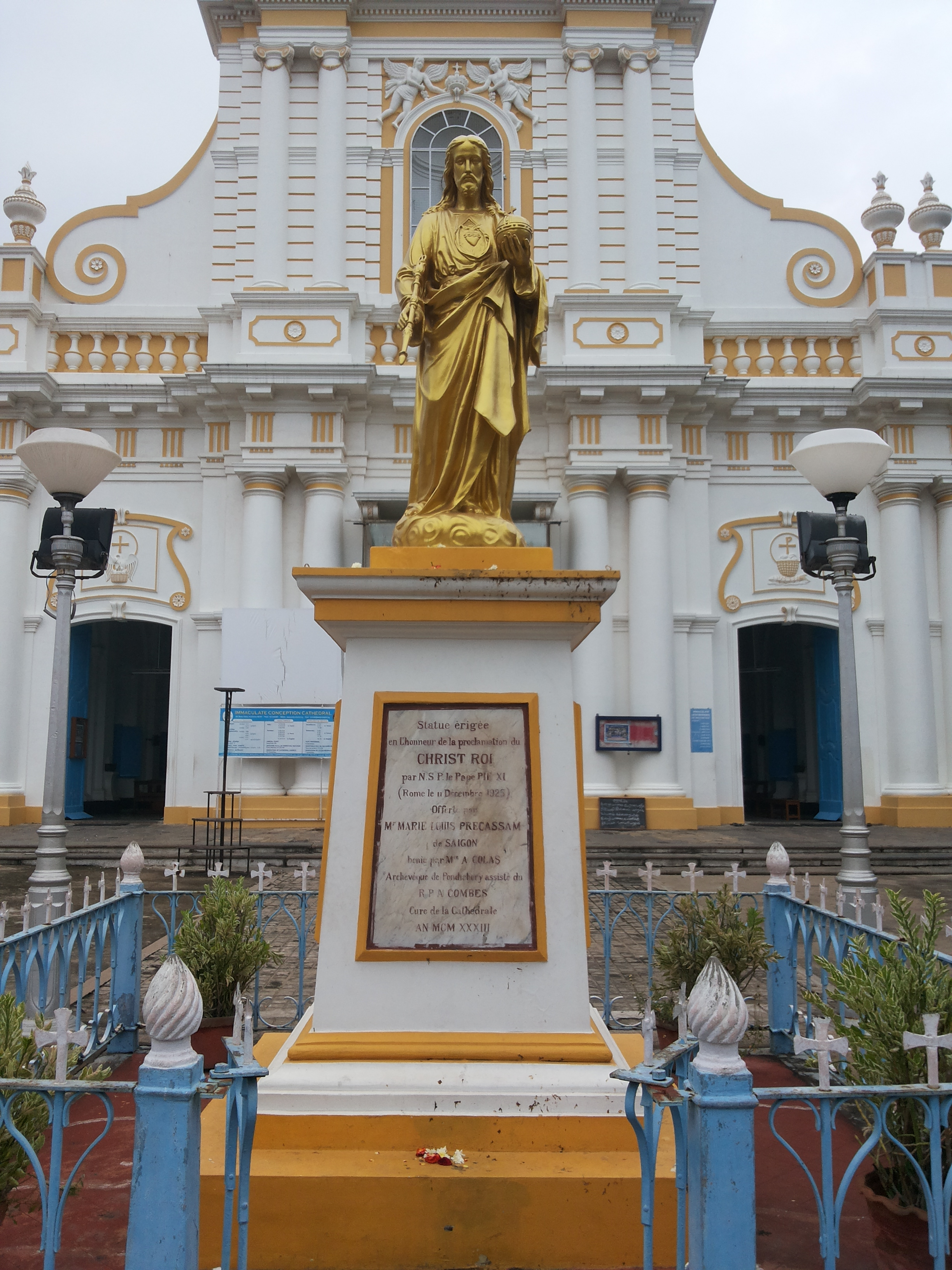 Christ the King, Puducherry Cathedral